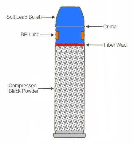 Diagram of .45 BMP load.